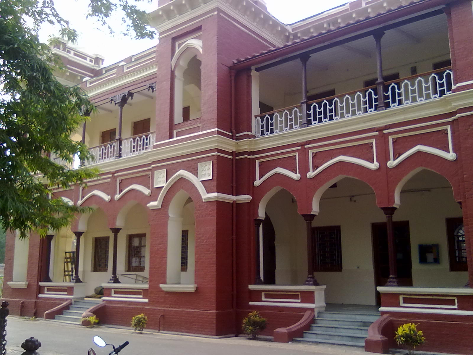 NIT Patna Main